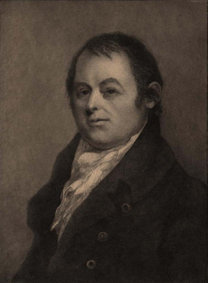 Lithograph print of a portrait by Samuel Perkins Gilmore. Probably after an earlier color portrait by Ralph Searle. Excerpted from large page print. Accompanying text: Amos Doolittle Engraver of the Battles of Concord & Lexington Born in Connecticut 1754 Died 1832 Drawn and Engraved for The Society of Iconophiles New York 1901